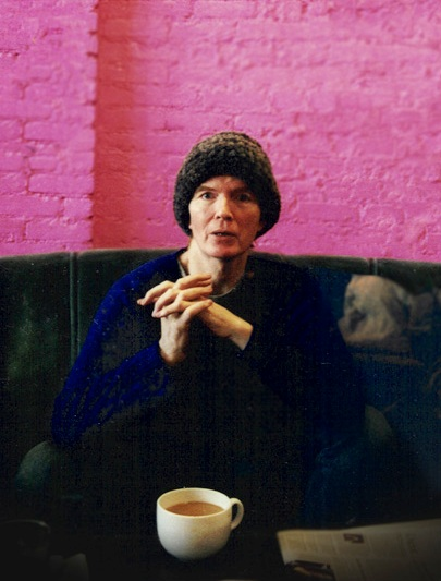 Jim Carroll, poet, author, musician (New York, NY 2005)